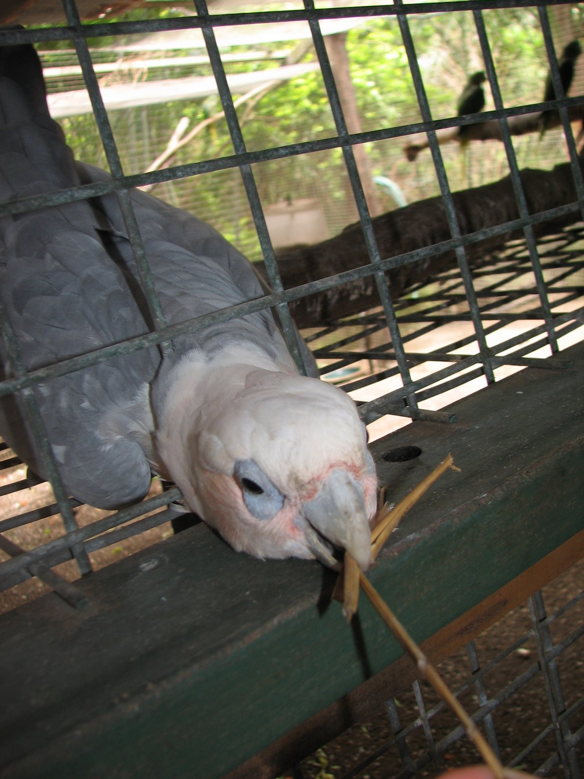 A Cockatoo hybrid (believed to be a galah cross little corella) at Flying High Bird Sanctuary, Australia.